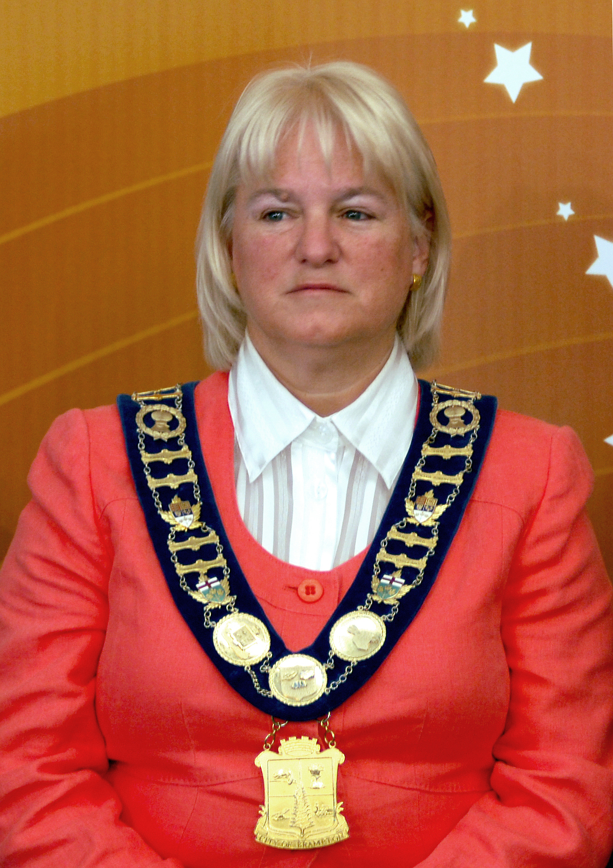 In the picture (left to right) is Bishop Fred Henry, Susan Fennell, and Stephane Dion From FlickR: Calgary, Alberta, Canada A few of the honoured dignitaries at the opening inauguration of the Baitan Nur Mosque, considered the largest mosque in Canada. Stephen Harper, Stephane Dion, and Elizabeth May, among a great many other dignitaries and community members, were present for the inauguration of this Ahmadiyya Muslim mosque where His Holiness Mirza Masroor Ahmad conveyed a message of peace and unity.